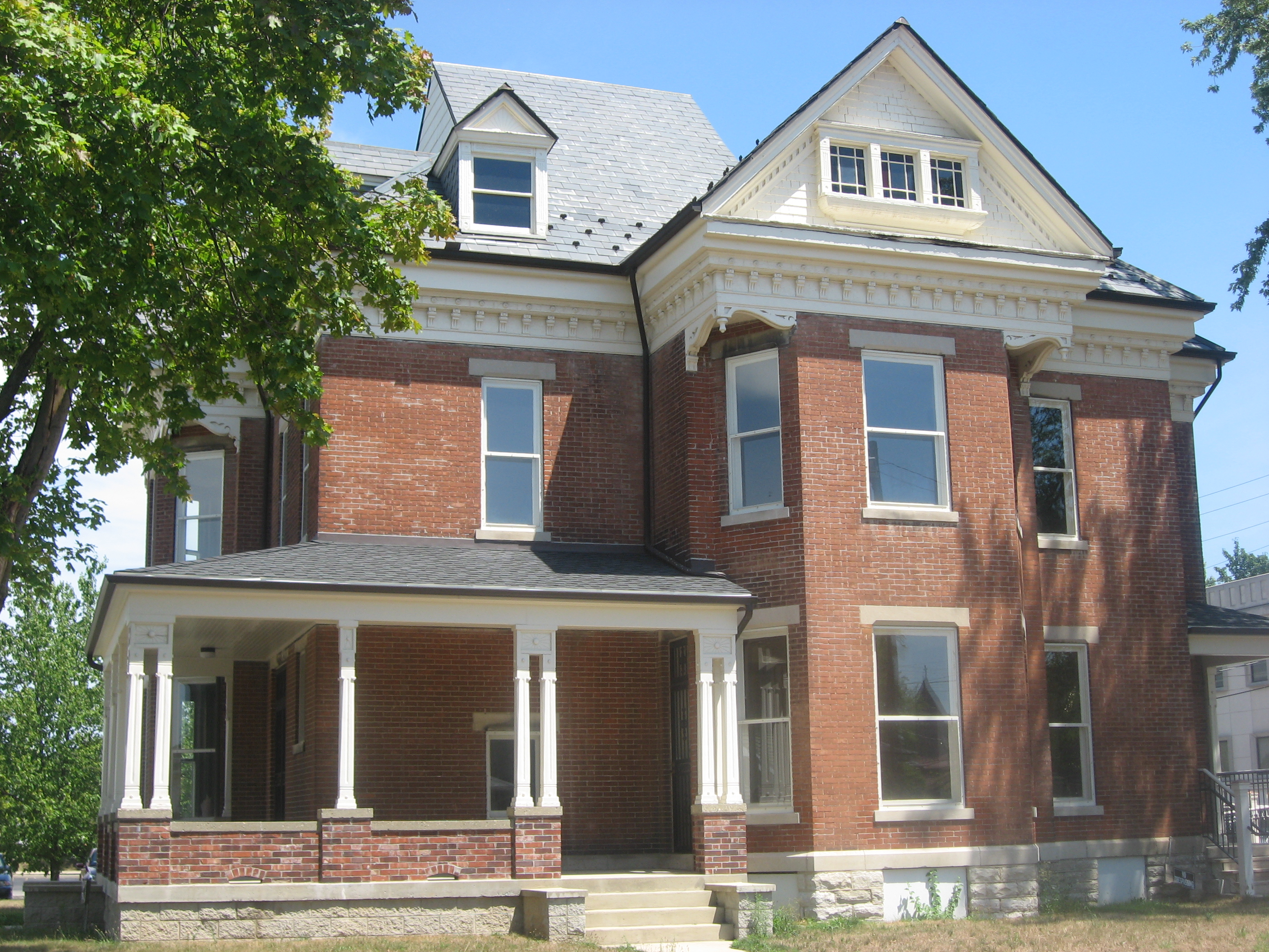 Front of the Abijah C. Jay House, located at 118 W. Seventh Street in Marion, Indiana, United States. Built in 1888, it is listed on the National Register of Historic Places.